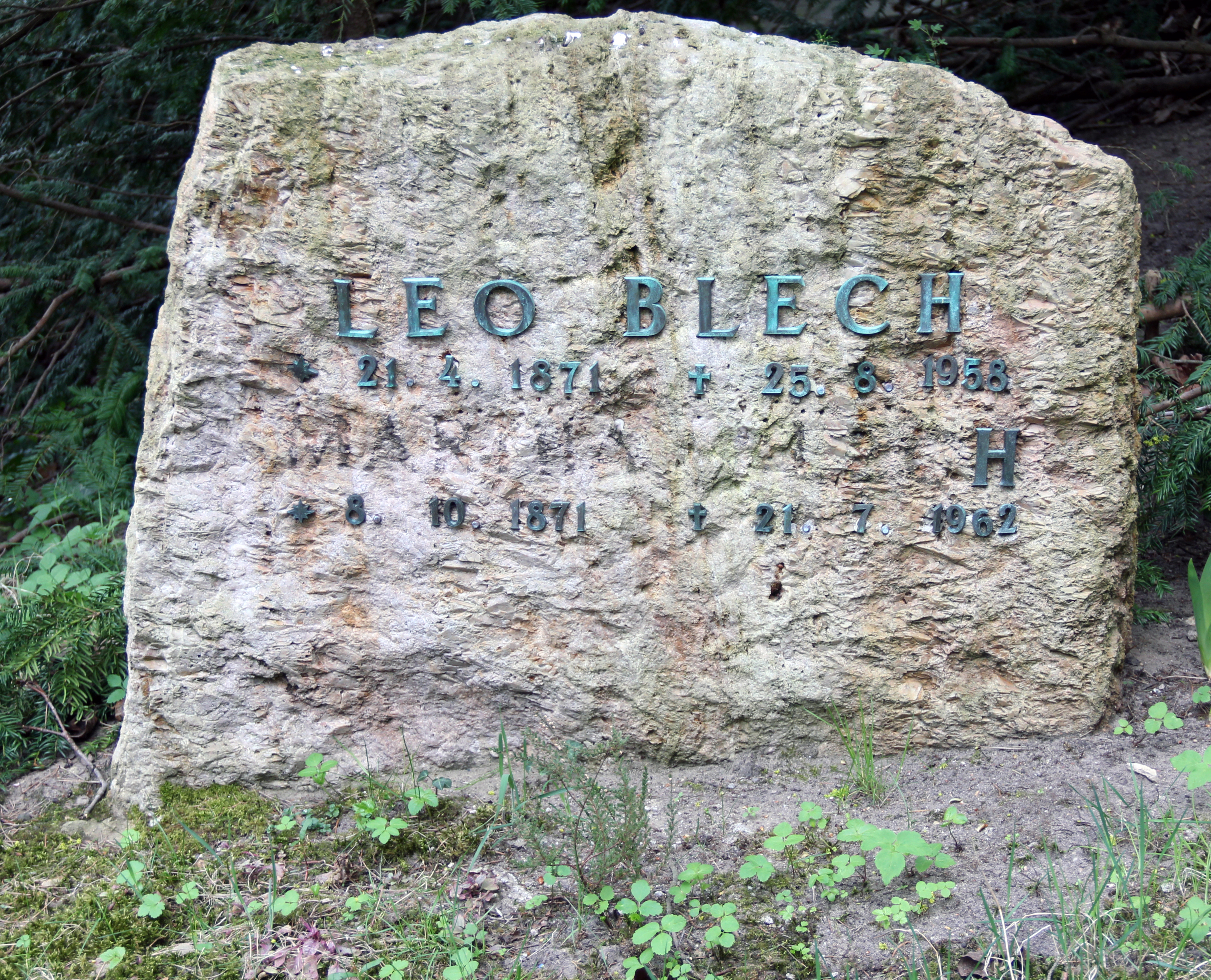 Gravestone, Leo Blech, Trakehner Allee 1, Berlin-Westend, Germany